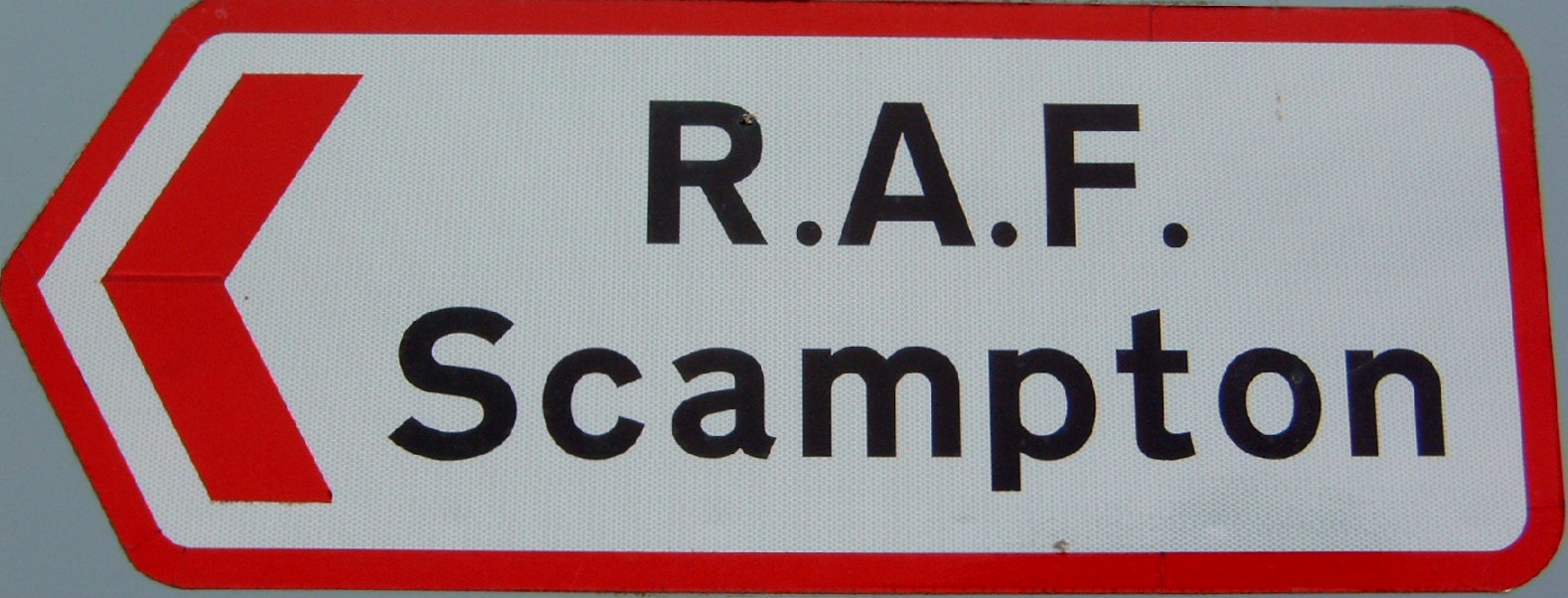 A sign indicating directions to RAF Scampton